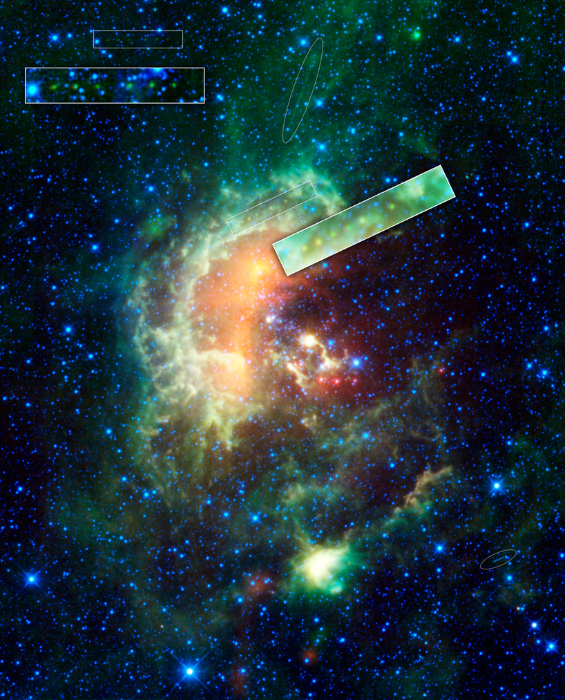 (highlighted version) As WISE scanned the sky, capturing this mosaic of stitched-together frames, it happened to catch an asteroid in our Solar System passing by. The asteroid, called 1719 Jens, left tracks across the image, seen as a line of yellow-green dots near centre. A second asteroid, designated 1992 UZ5, was also observed cruising by near the upper left. But that's not all that WISE caught in this busy image -- two satellites orbiting Earth above WISE streak through the image, appearing as faint green trails. The apparent motion of asteroids is slower than satellites because asteroids are much more distant, and thus appear as dots that move from one WISE frame to the next, rather than streaks in a single frame. This Tadpole region is chock-full of stars with ages as young as only a million years -- infants in stellar terms -- and masses over ten times that of our Sun. It is called the Tadpole nebula because the masses of hot young stars are blasting out ultraviolet radiation that has etched the gas into two tadpole-shaped pillars, called Sim 129 and Sim 130. These "tadpoles" appear as the yellow squiggles near the centre of the frame. The knotted regions at their heads are likely to contain new young stars. Twenty-five frames of the region, taken at all four of the wavelengths detected by WISE, were combined into this one image. The space telescope caught the 1719 Jens in 11 successive frames. Infrared light of 3.4 microns is color-coded blue: 4.6-micron light is cyan; 12-micron-light is green; and 22-micron light is red.